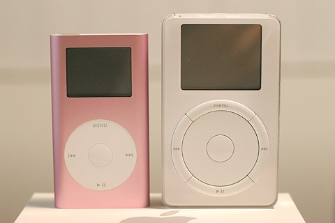 iPod mini and iPod classic